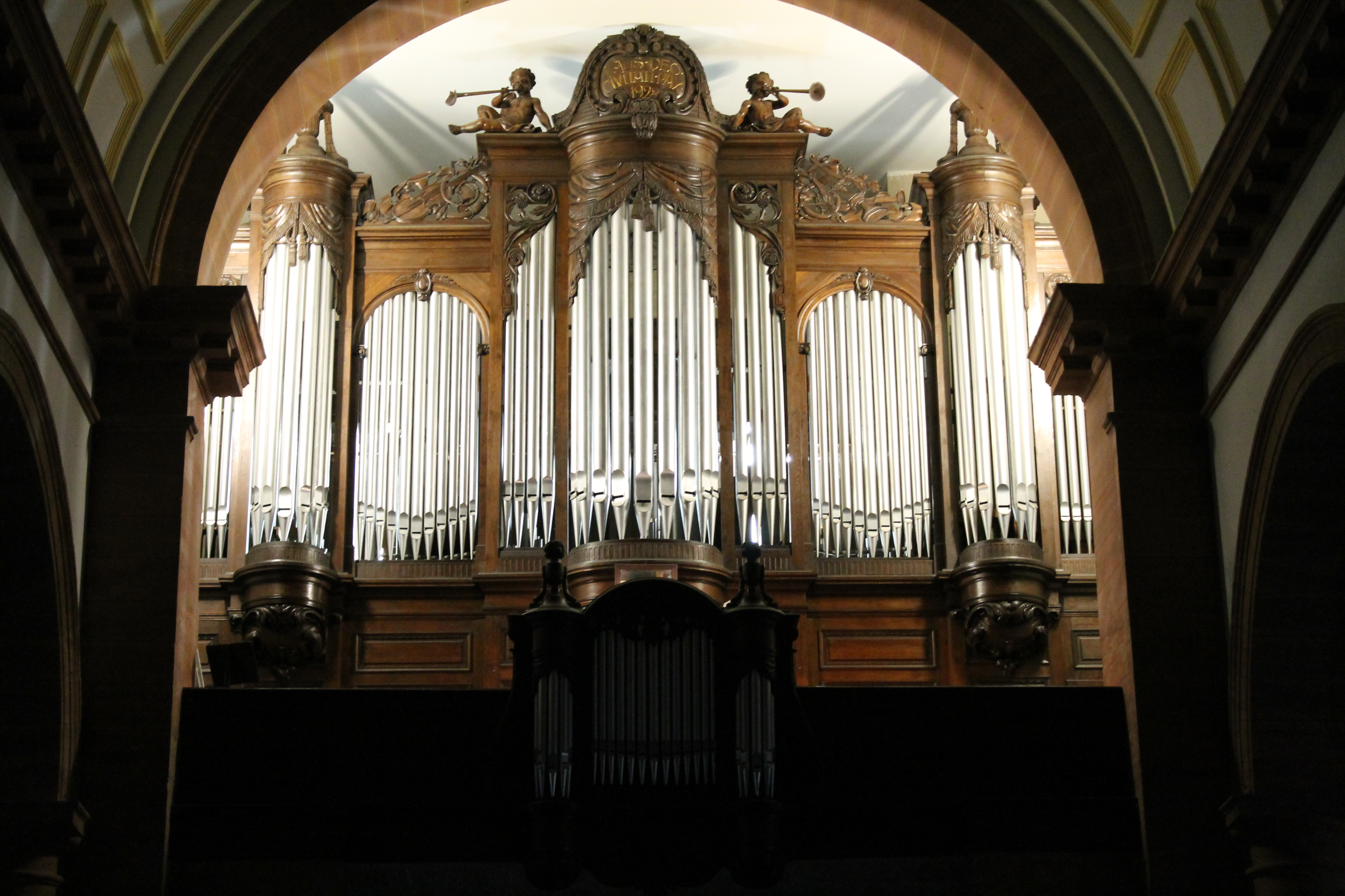 Organ of the Saint-Luc church of Raon L'Etape, 44 stops on 3 keyboards and pedals. Built by Joseph RINCKENBACH and inaugurated in 1931 by Gaston Litaize. Damaged in November 1944 by American bombing, it was repaired in 1955 by the ROETHINGER factory.